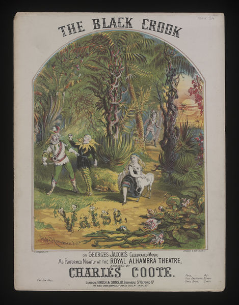 Sheetmusic cover for The Black Crook by Georges Jacobi (1840-1906)